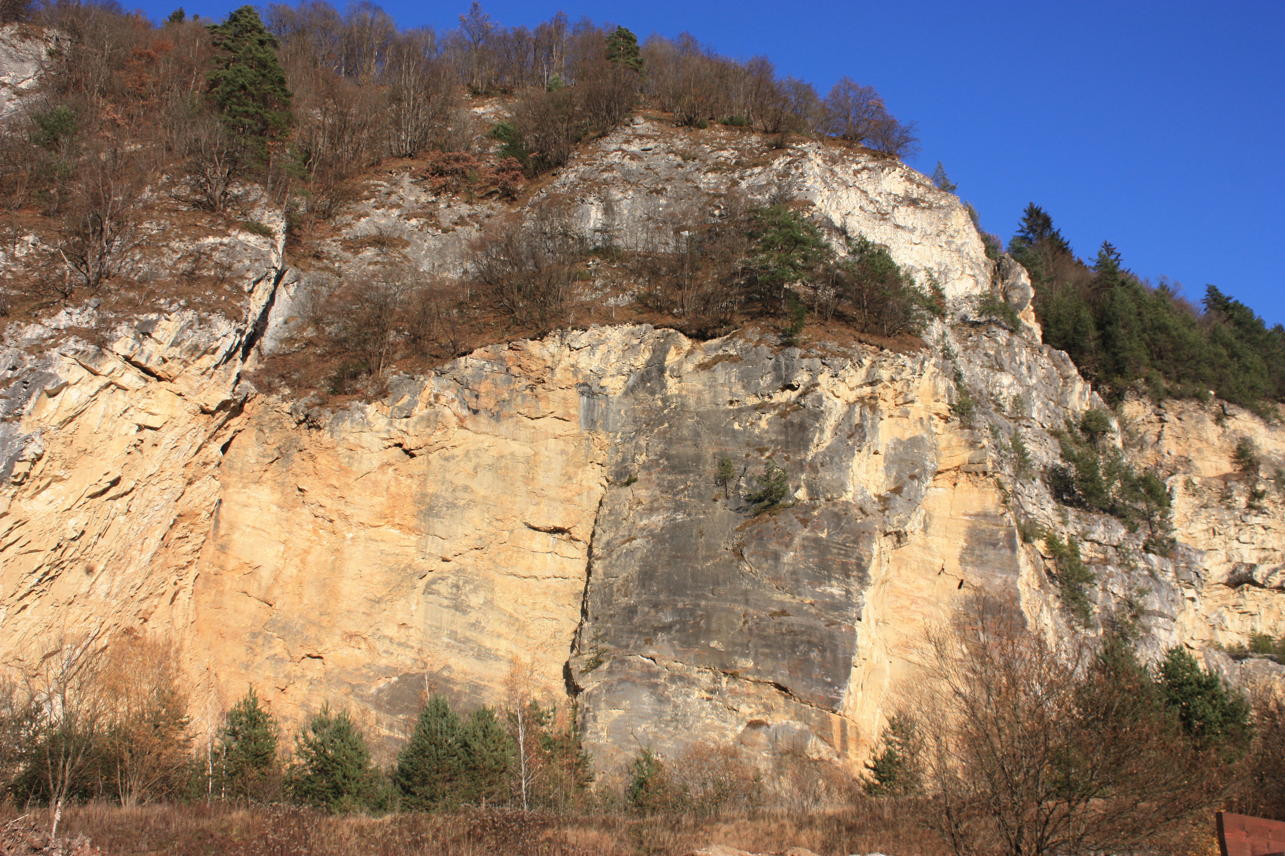 Former chalk-quarry Locality:Treffen Community:Treffen